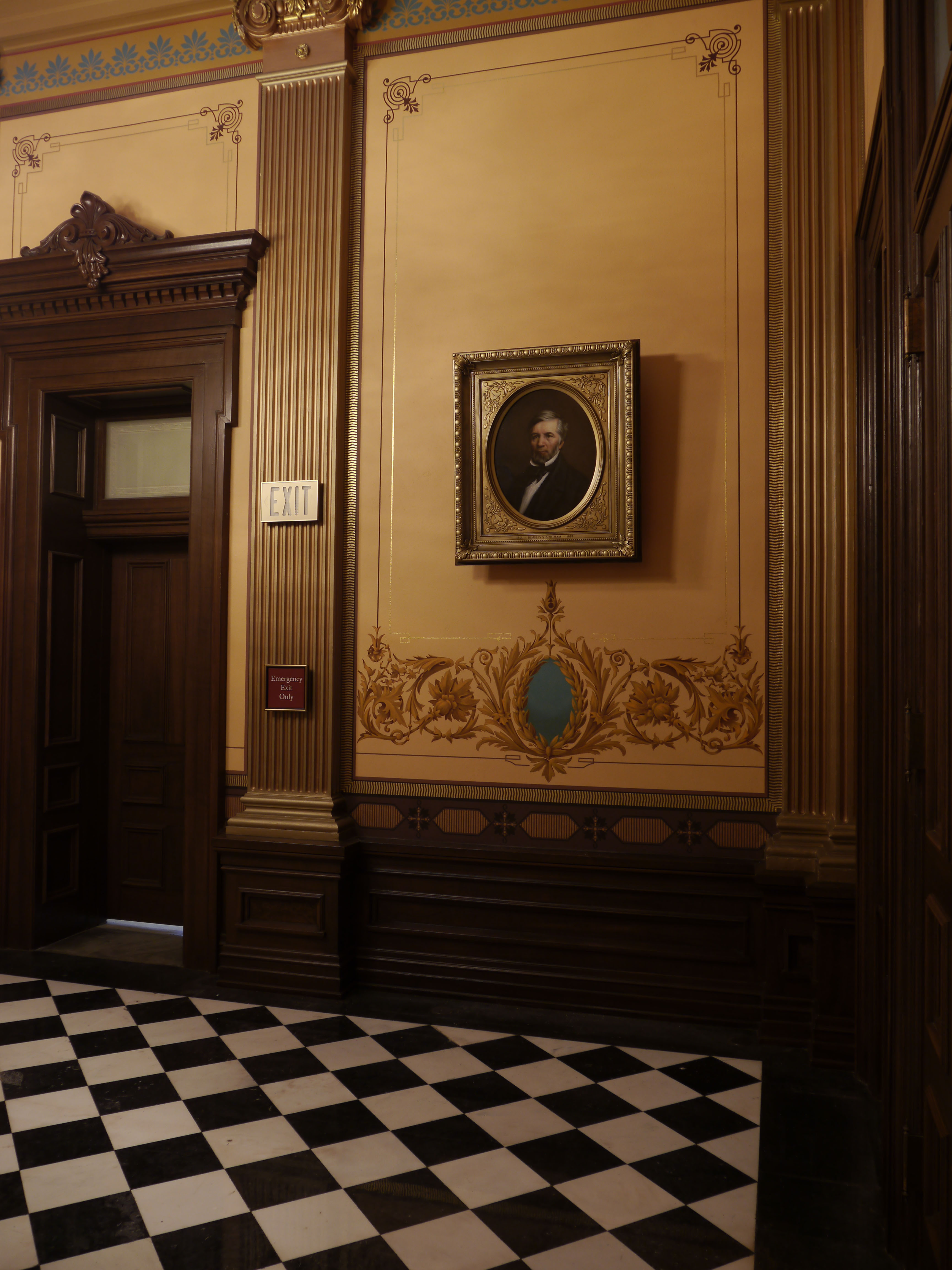 This is a portrait of Kinsley S, Bingham painting by Joshua Adam Risner in 2016.